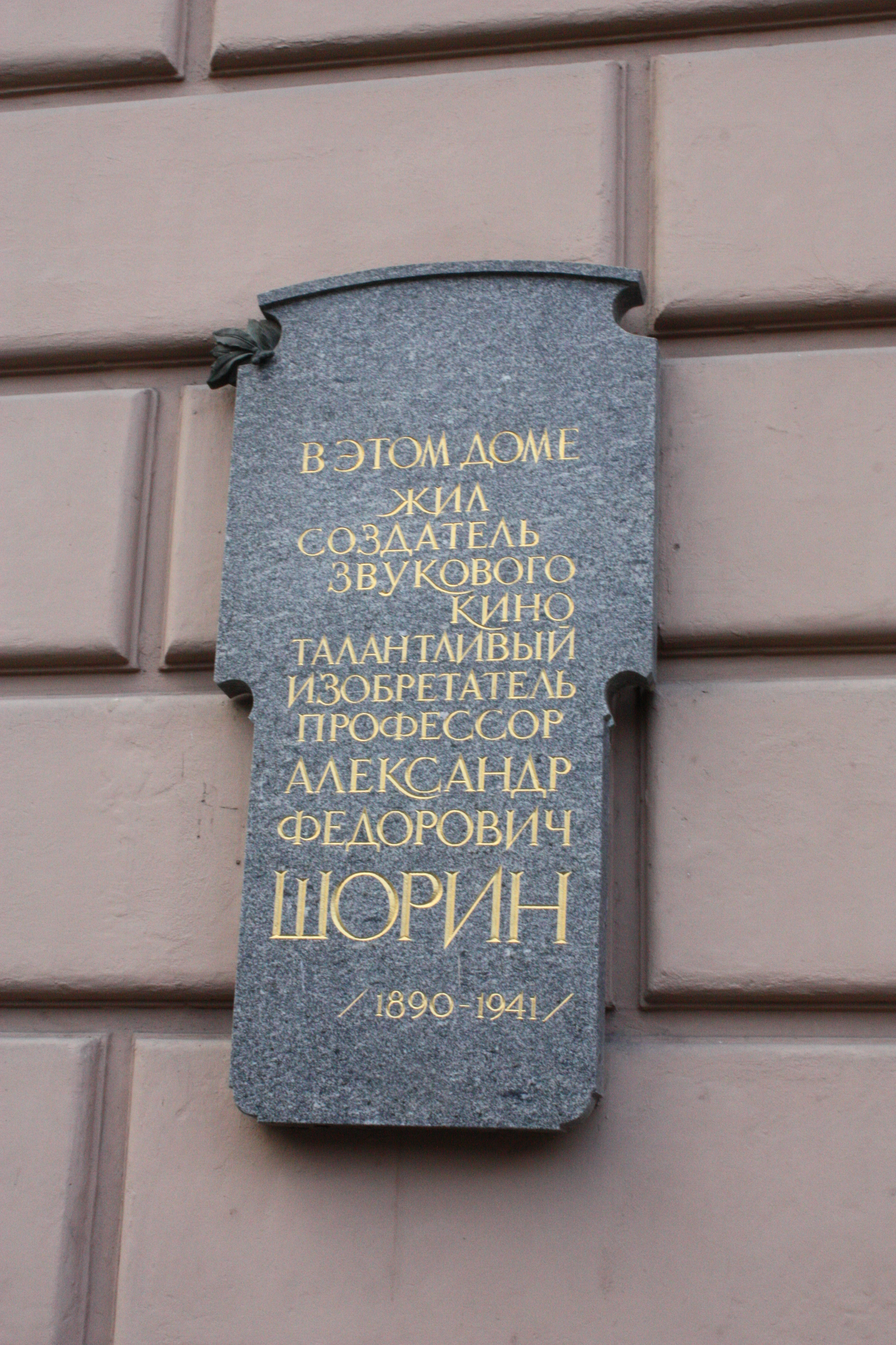 Aleksandr Fedorowitsch Schurin, 1890-1941, memory plate at his house in St. Petersburg